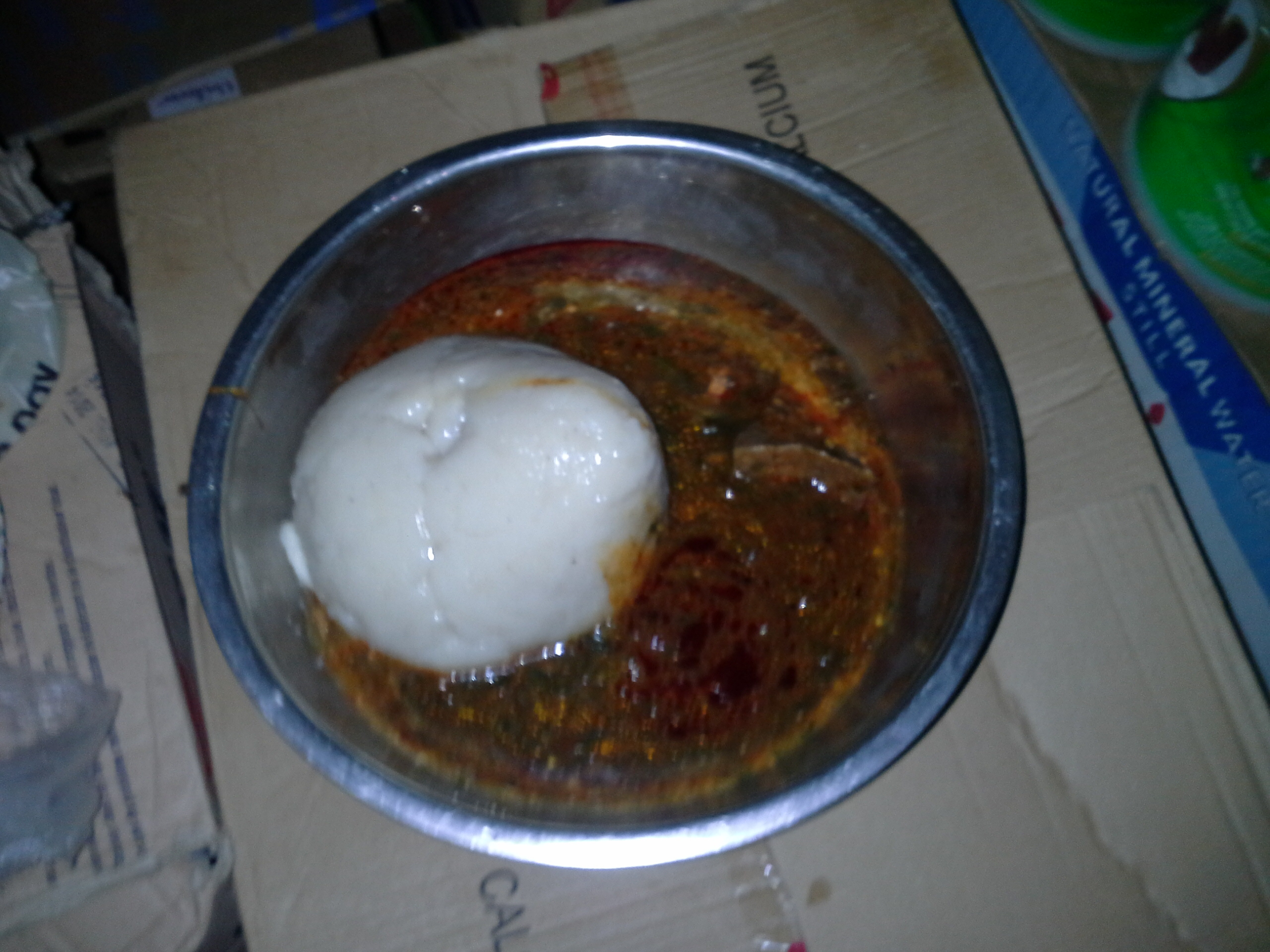 Ready to eat tuo zaafi and meat This is an image of food from Ghana